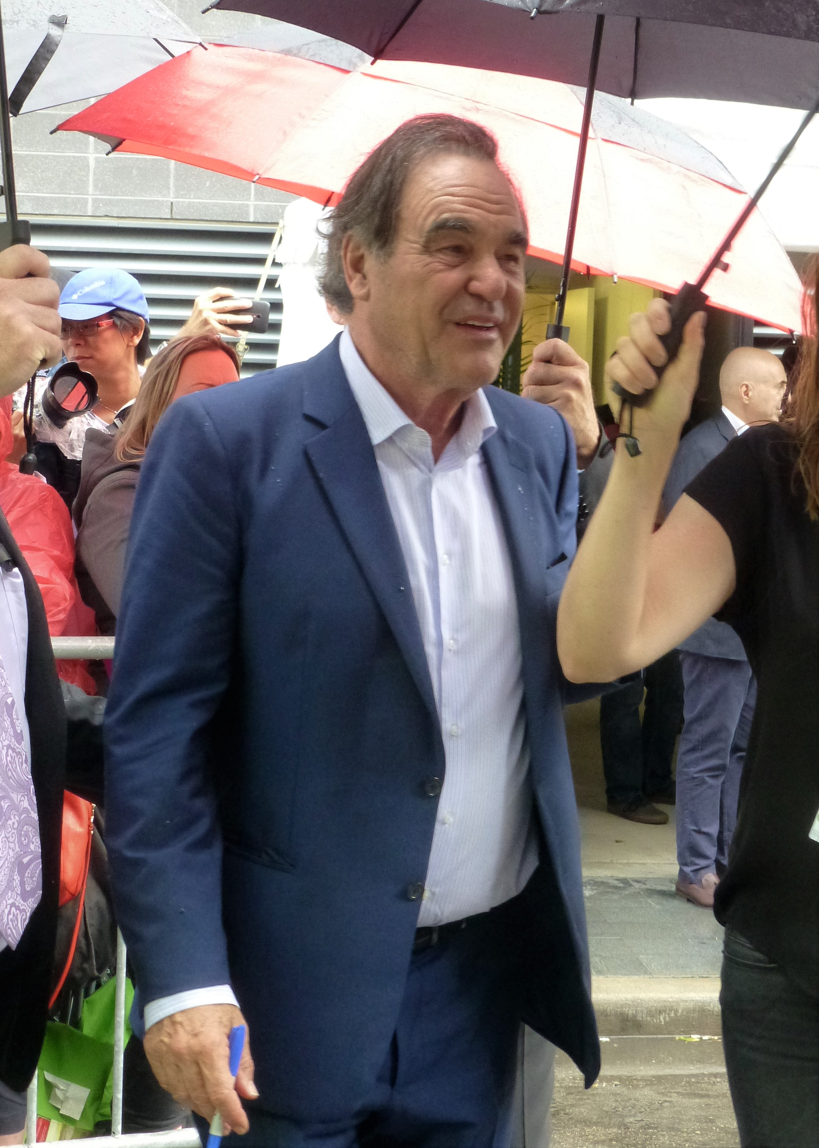 Oliver Stone at the press conference of Snowden, 2016 Toronto Film Festival